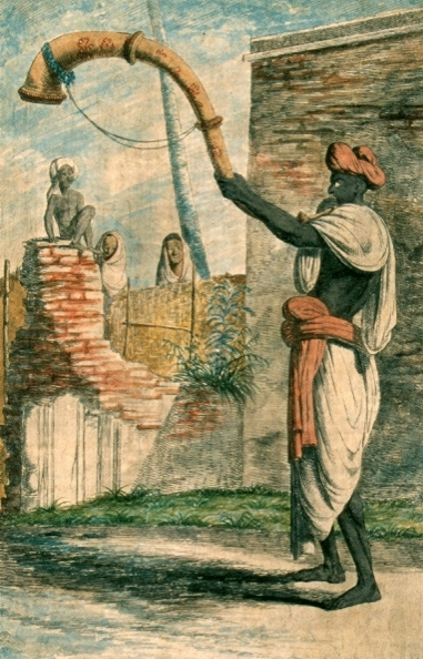 A ramsinga (from Solvyns, A Collection of Two Hundred and Fifty Coloured Etchings, 1799)